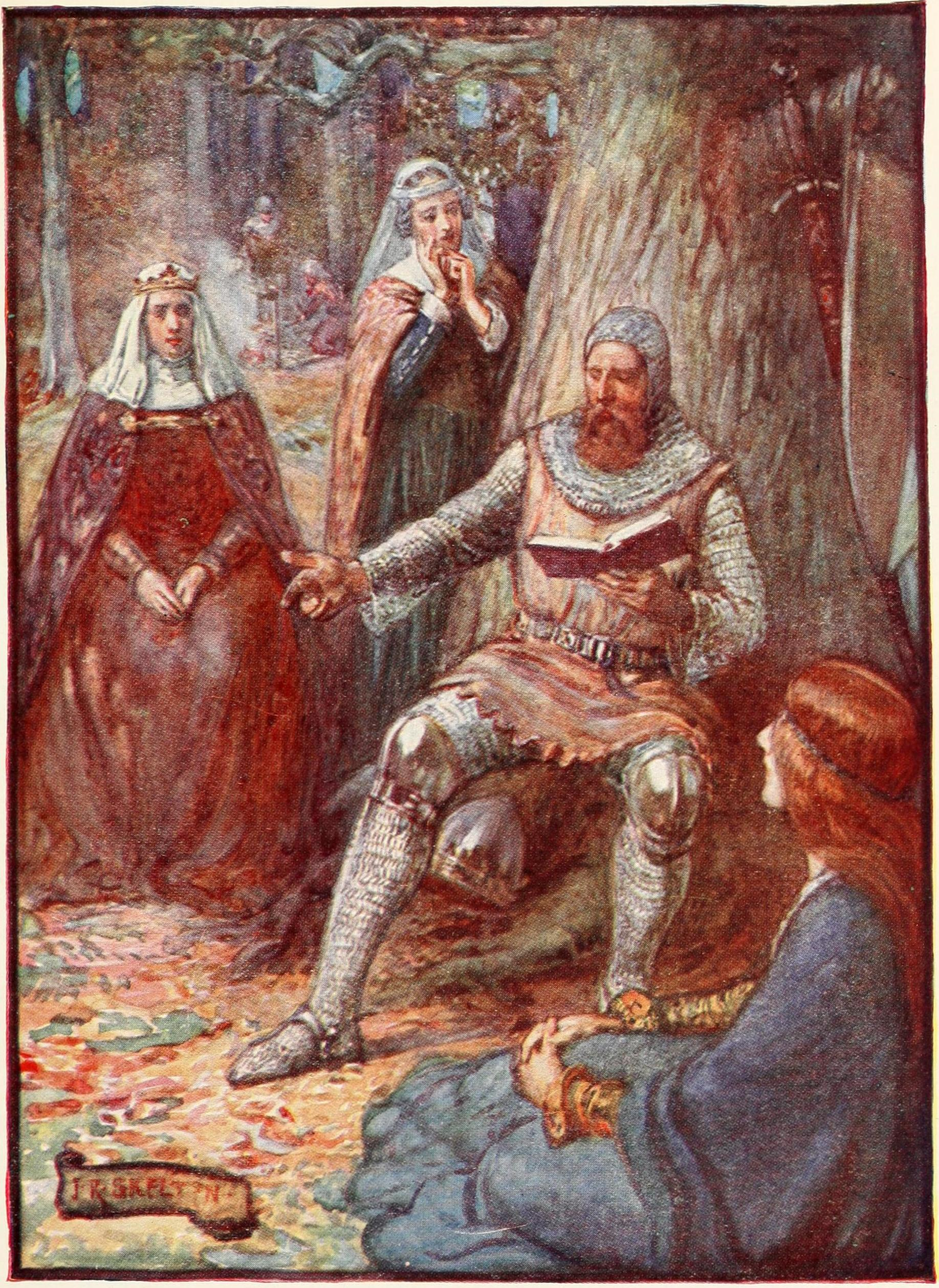 Scotland's story : a history of Scotland for boys and girls by Marshall, H. E. (Henrietta Elizabeth), b. 1876 Published 1907 SHOW MORE List of Kings from Duncan I.: p. 419-421 Publisher London : T.C. & E.C. Jack Pages 496 Possible copyright status NOT_IN_COPYRIGHT Language English Digitizing sponsor MSN Book contributor New York Public Library Collection newyorkpubliclibrary; americana Full catalog record MARCXML [Open Library icon]This book has an editable web page on Open Library.